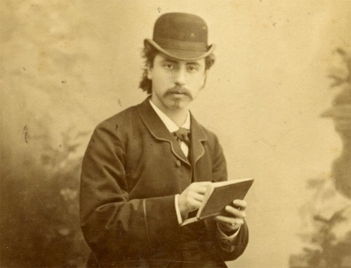 Fredericus van Rossum du Chattel